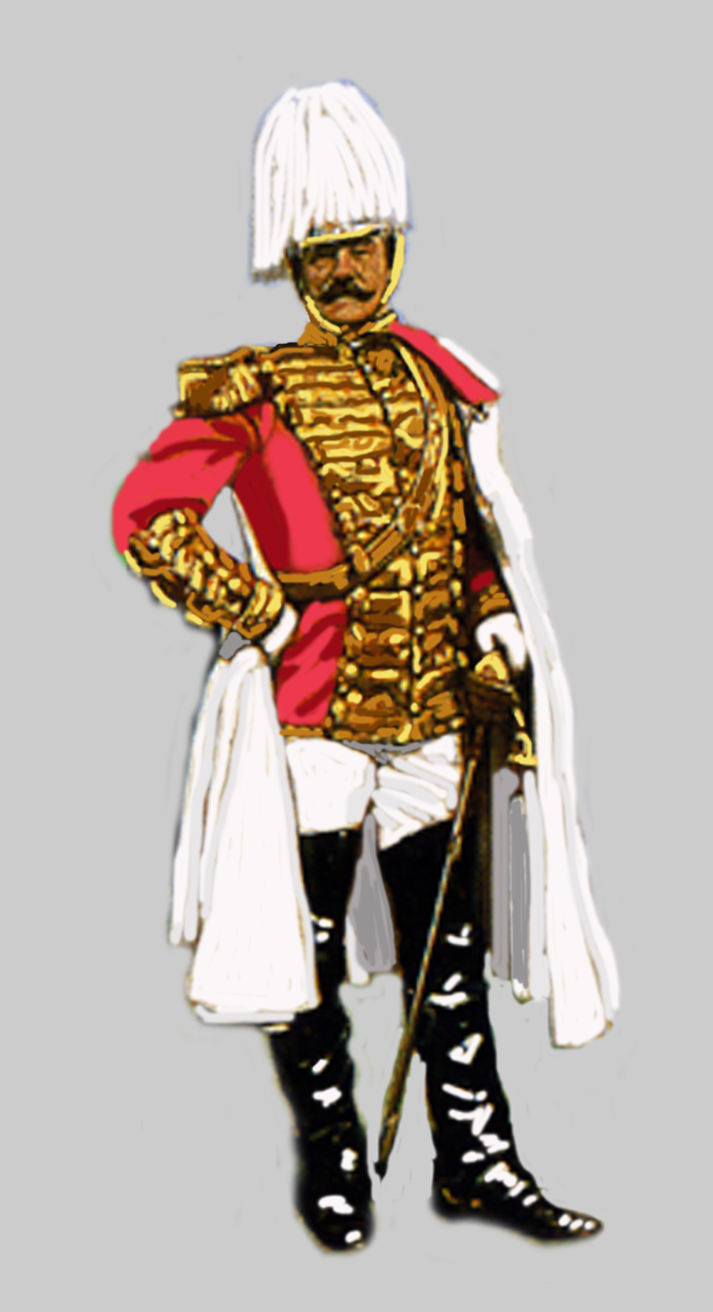 Member of the First Arcieren-leibgarde on feet of the Austro-Hungarian Army in court dress uniform.